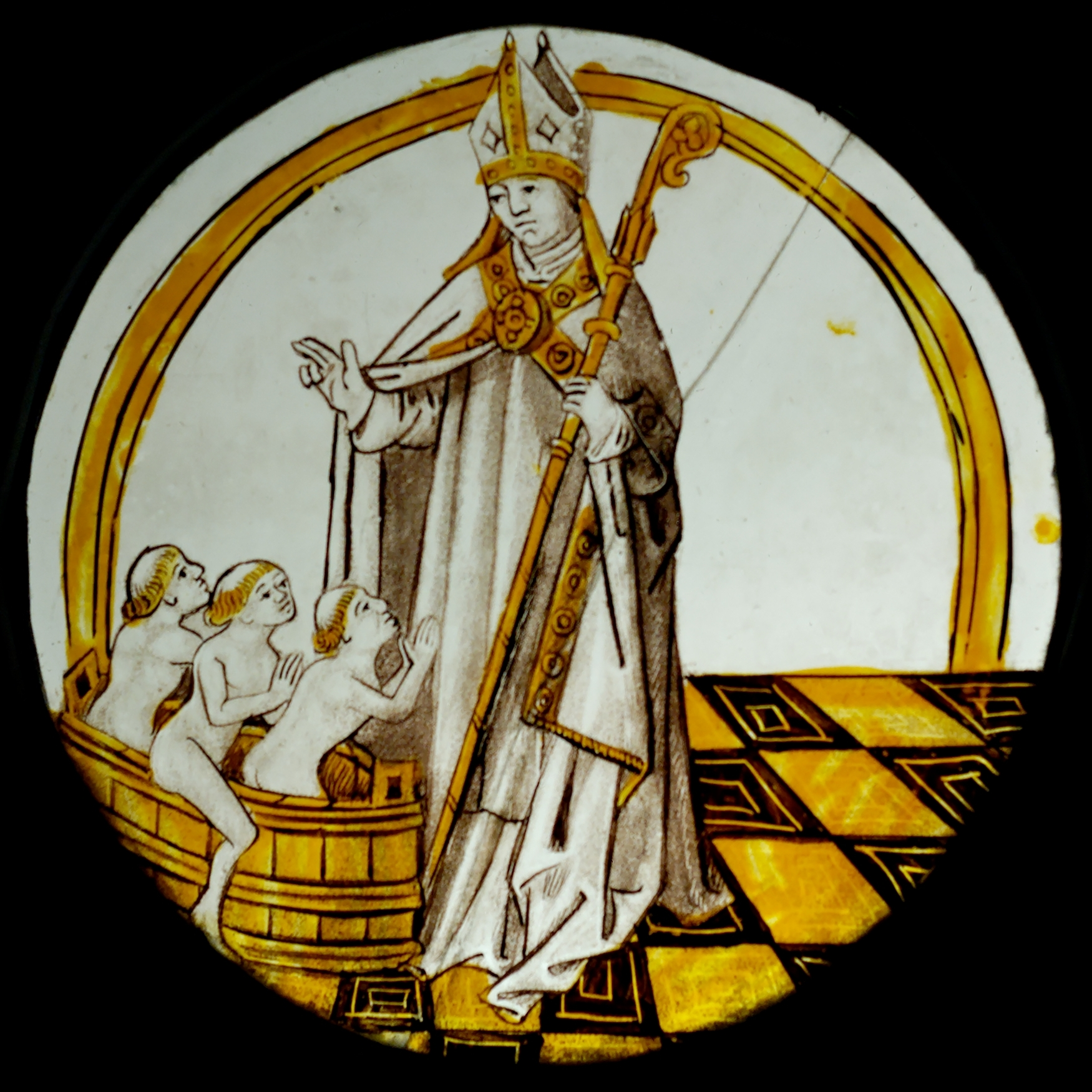 St. Nicholas and the three children rescued from the butcher. Stained glass (white glass, grisaille, silver sulfide) and lead, France, ca. 1510-1530.